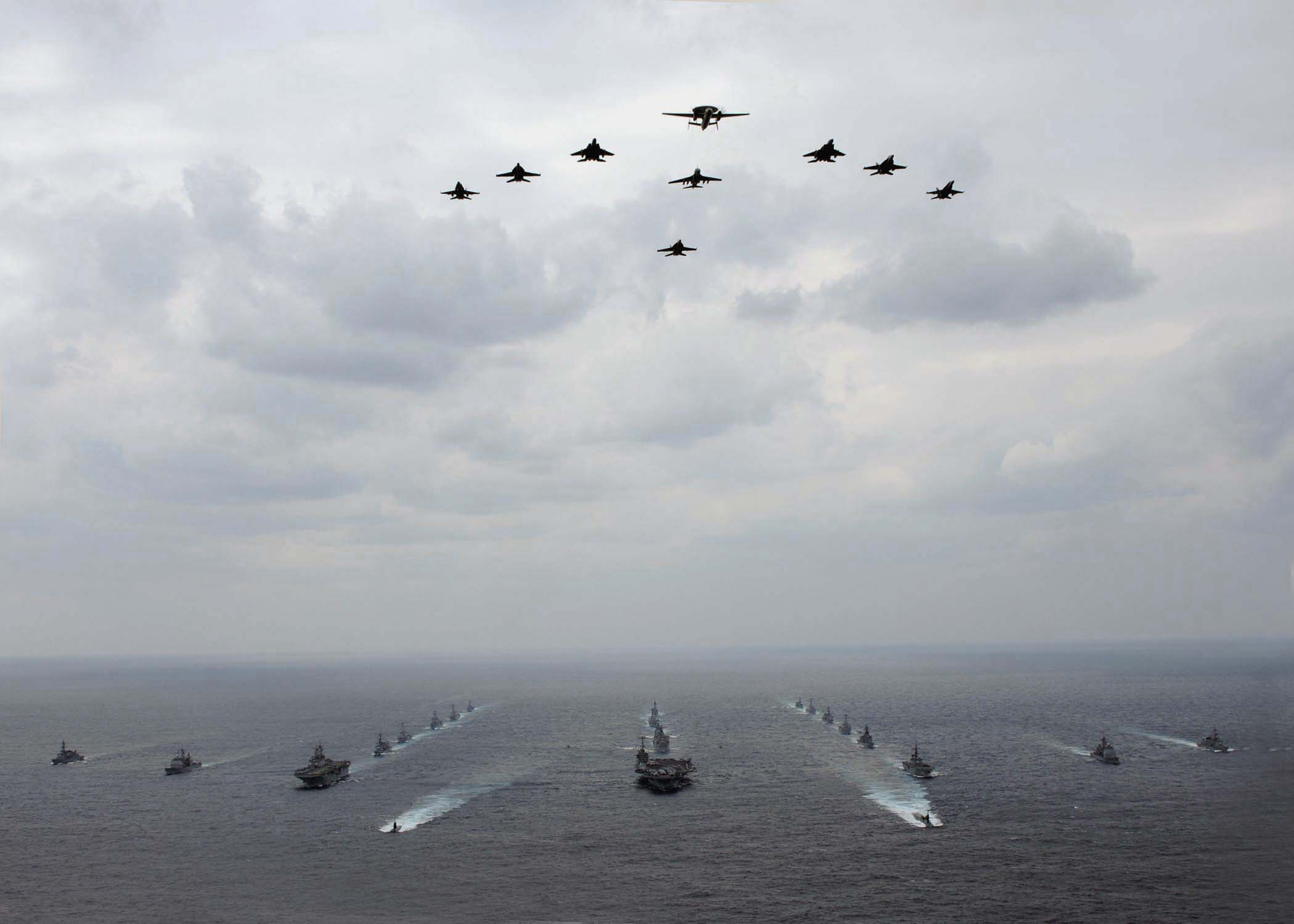 Description: U.S. Navy and Japanese Air Self-Defense Force aircraft fly in formation over U.S. Navy and Japan Maritime Self-Defense Force ships. 081119-N-7047S-140 PACIFIC OCEAN (Nov. 19, 2008) U.S. Navy and Japan Air Self-Defense Force aircraft fly in formation over U.S. Navy and Japan Maritime Self-Defense Force ships during a photo exercise at the culmination of ANNUALEX 2008. ANNUALEX is a bilateral exercise between the U.S. Navy and the Japan Maritime Self-Defense Force. — Released (Text by U.S. Navy)